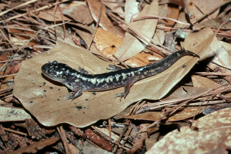 Eastern tiger salamander (Ambystoma tigrinum)